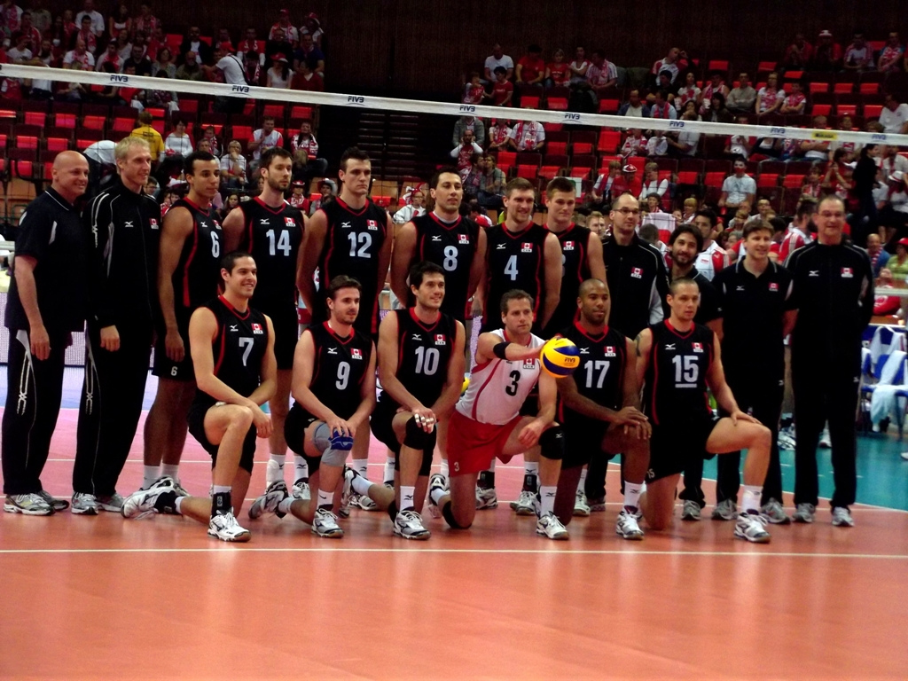 Canada volleyball team during World League